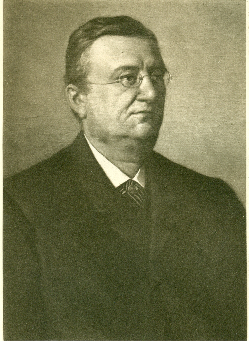 Portrait photograph of German librarian and specialist in Oriental studies Wilhelm Pertsch.